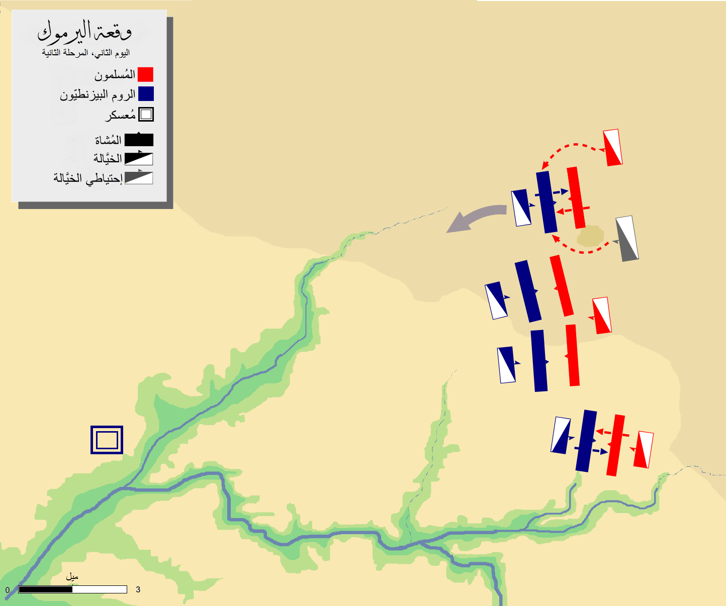 Battle_of_Yarmouk-day-2_phase-2